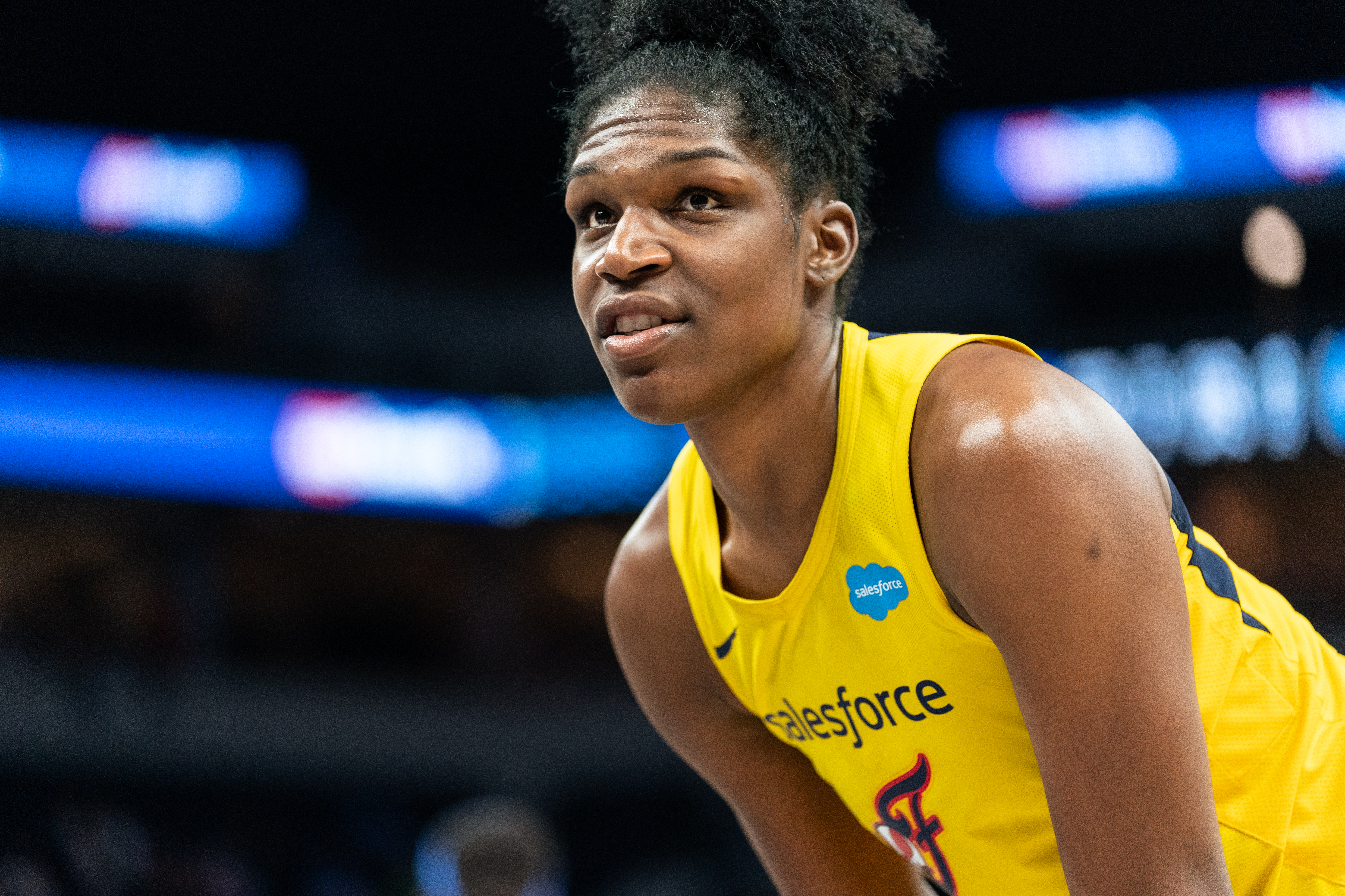 Minnesota Lynx vs Indiana Fever on 9/1/19 at Target Center in Minneapolis, MN; the Lynx won the game 81-73.